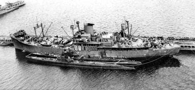 The U.S. Navy submarine tender USS Pelias (AS-14) with two submarines alongside. Pelias was based at Fremantle, Australia, between July 1942 and May 1944 she overhauled, repaired, and refitted 59 submarines of Submarine Squadrons 6, 12, and 16.